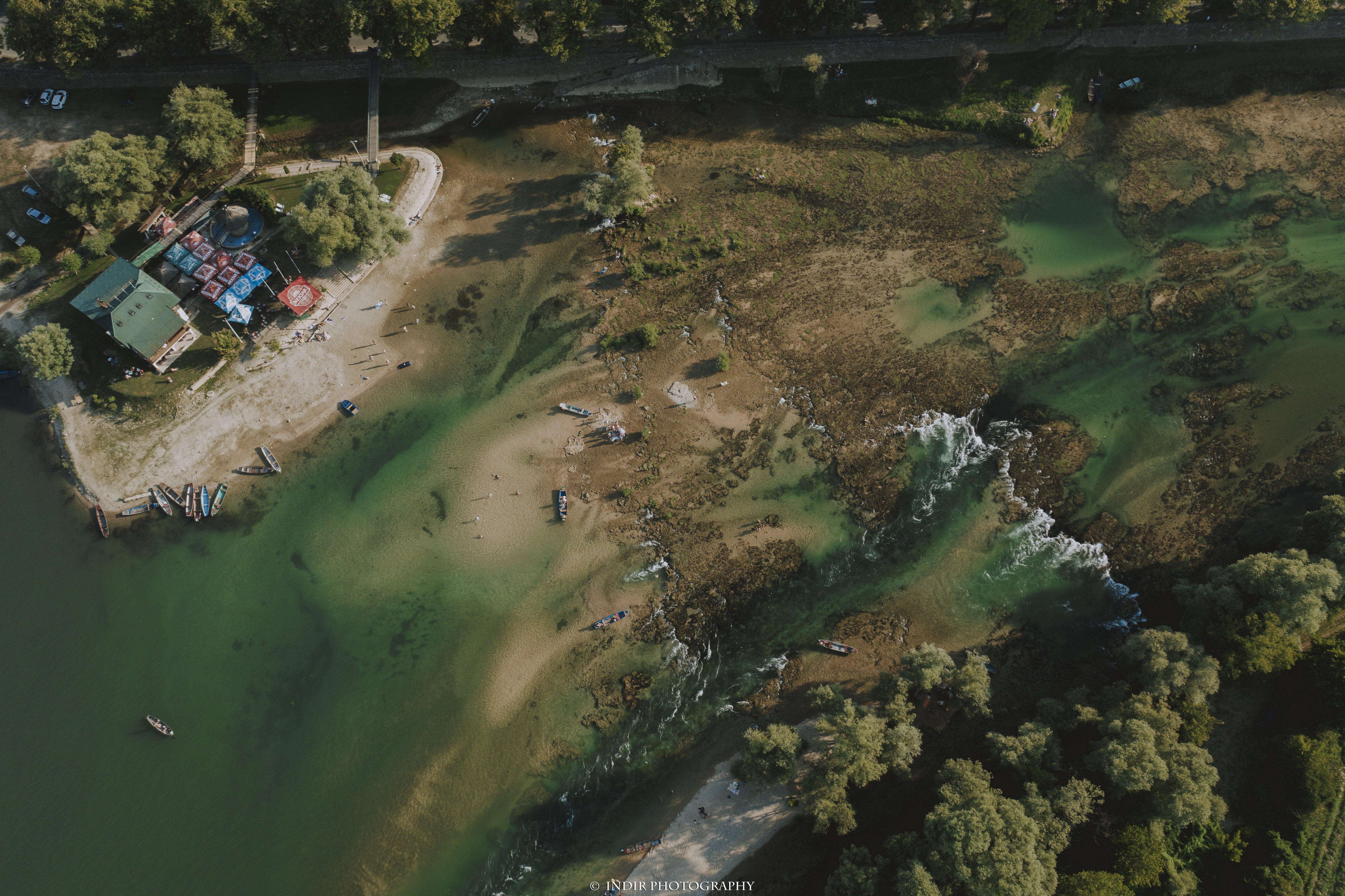 The Una (pronounced [ûna]; Cyrillic: Уна) is a river in Croatia and Bosnia and Herzegovina. The river has a total length of 214.6 km (133.3 mi) and watershed area of 9,829 km2 (3,795 sq mi).